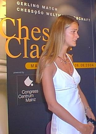 Carmen Kass, Chess Classic Mainz 2004